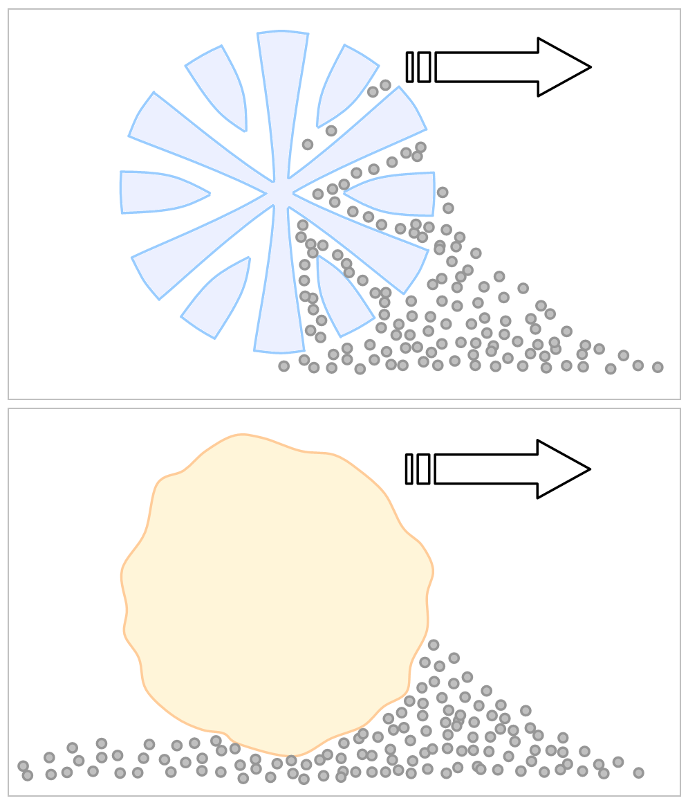 Cross section of microfiber and cotton threads. Principle of action, illustrated with the movement to the right. Microfibre leaves no residue, contrary to cotton.